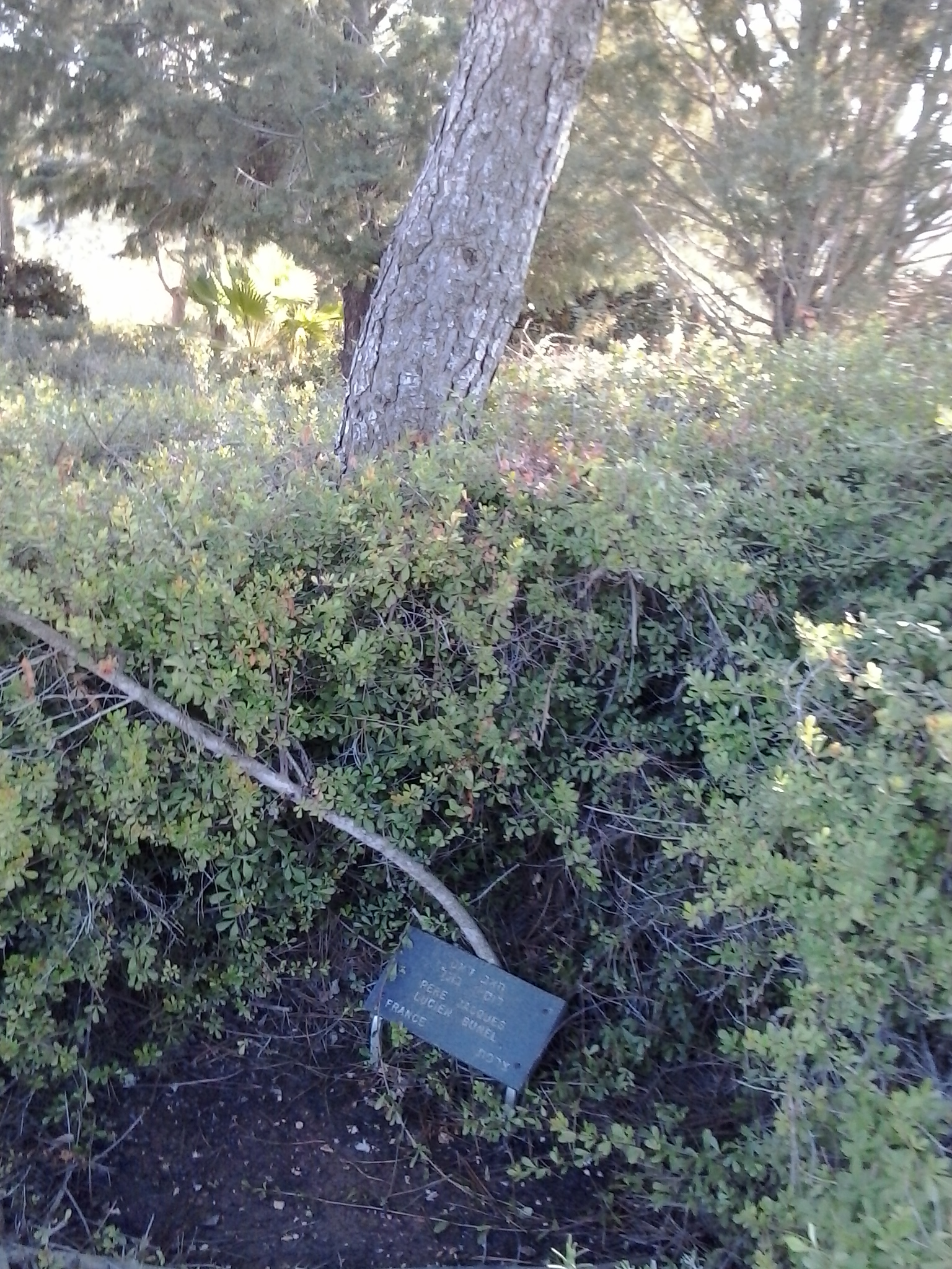 tree planted at Yad Vashem honoring Pere jacques, Lucien Bunel